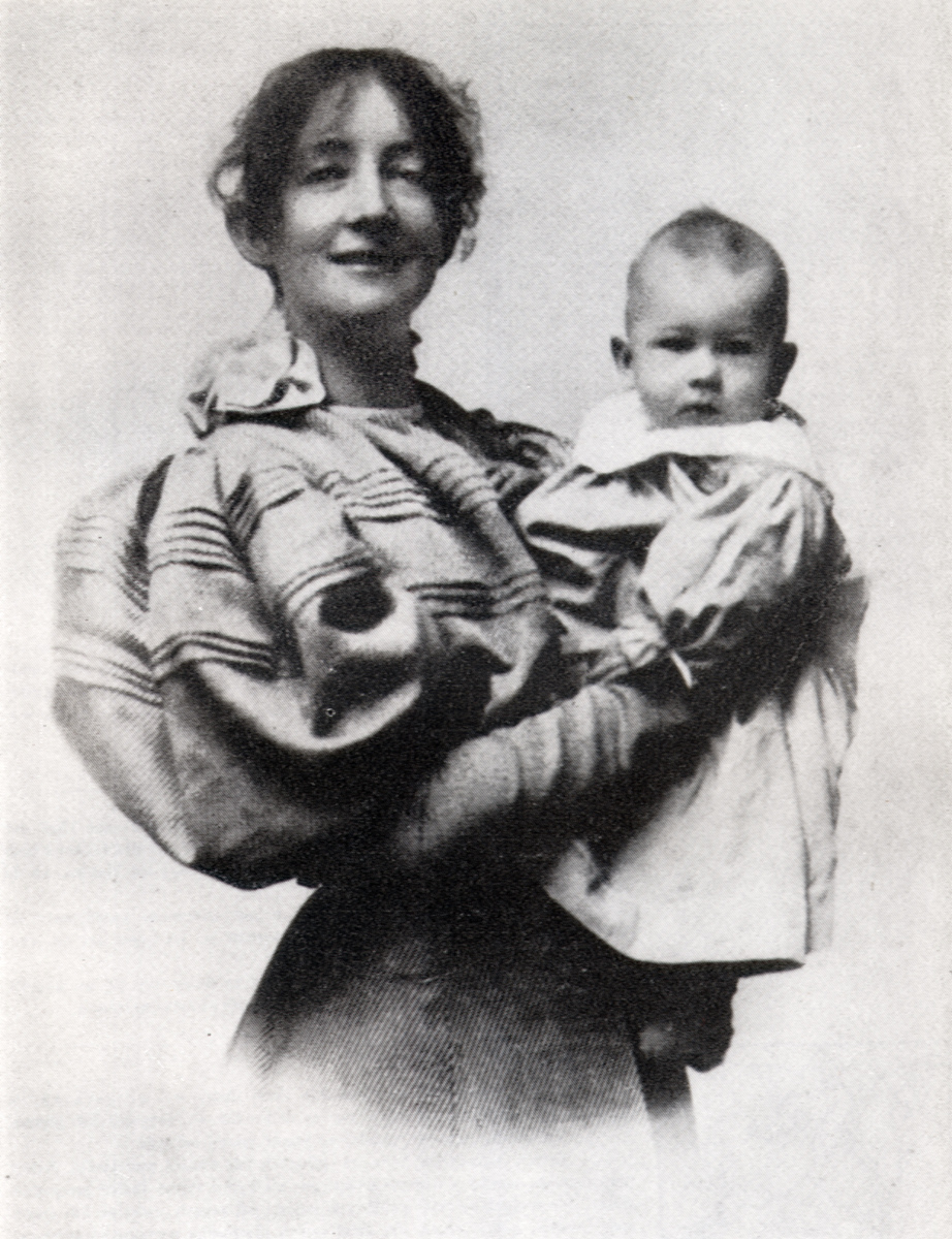 Dagny Juel, Norwegian writer, with her son Zenon Przybyszewski